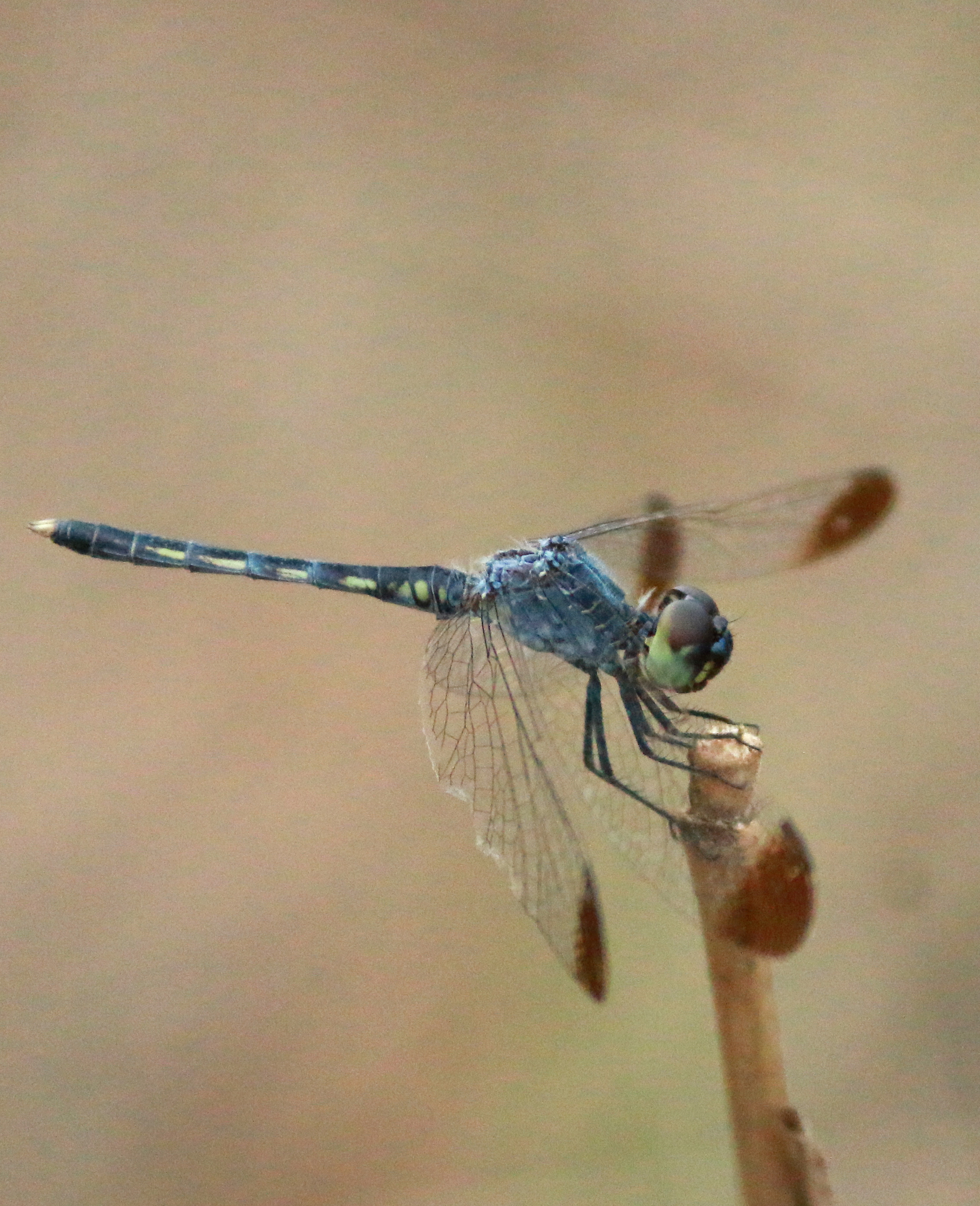 Black tipped ground skimmer